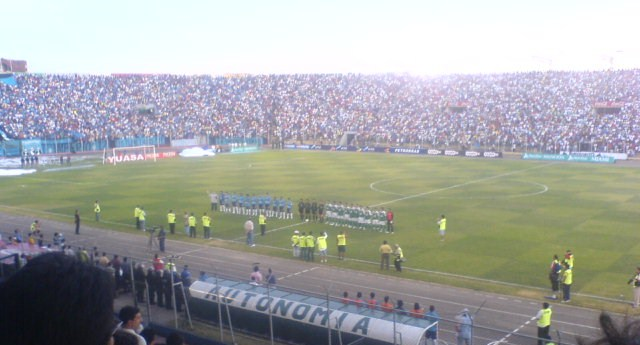 Picture of the derby (clásico cruceño) Blooming vs Oriente Petrolero